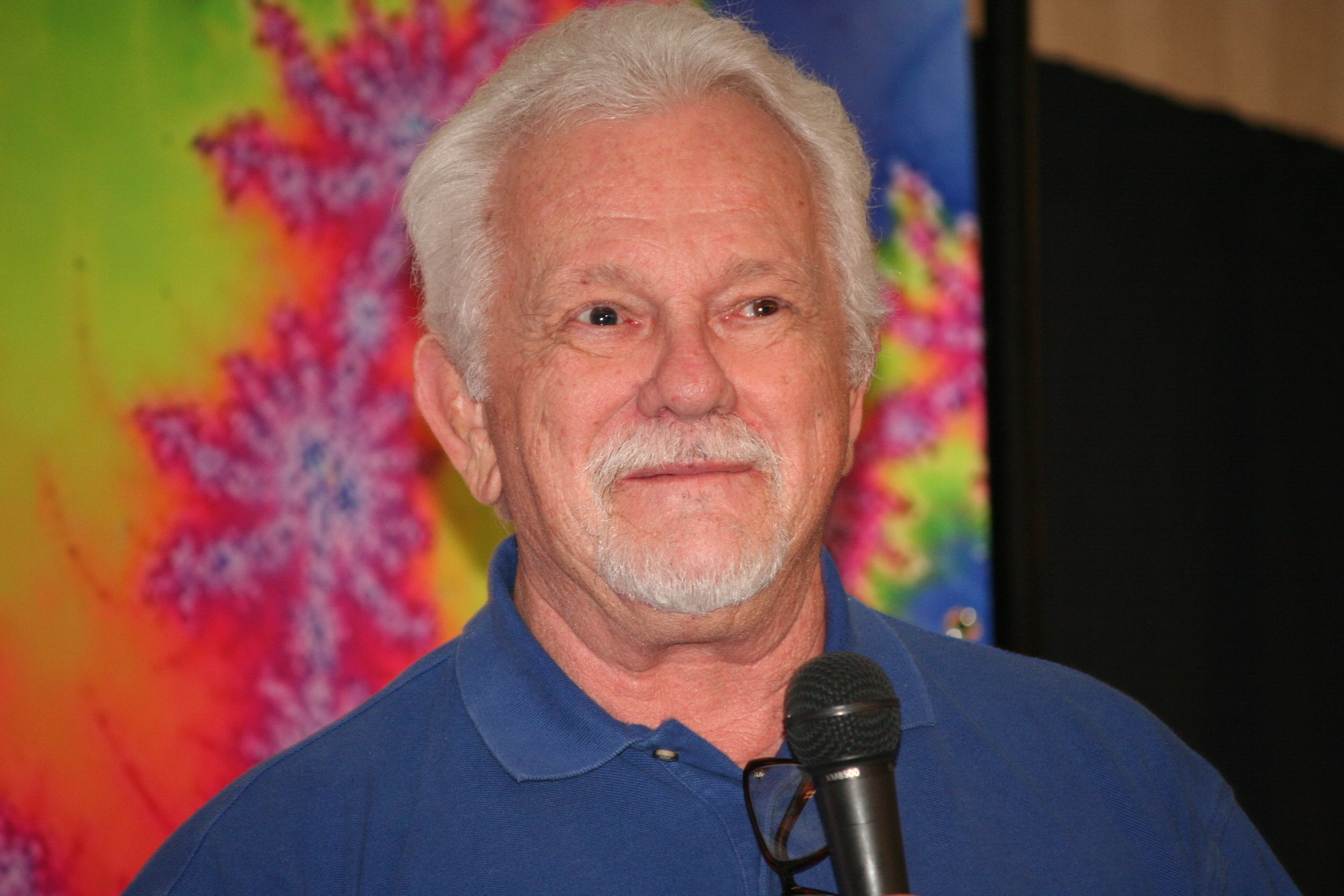 Les Thatcher at the"Jim Cornette Experience" on July 31, 2014.